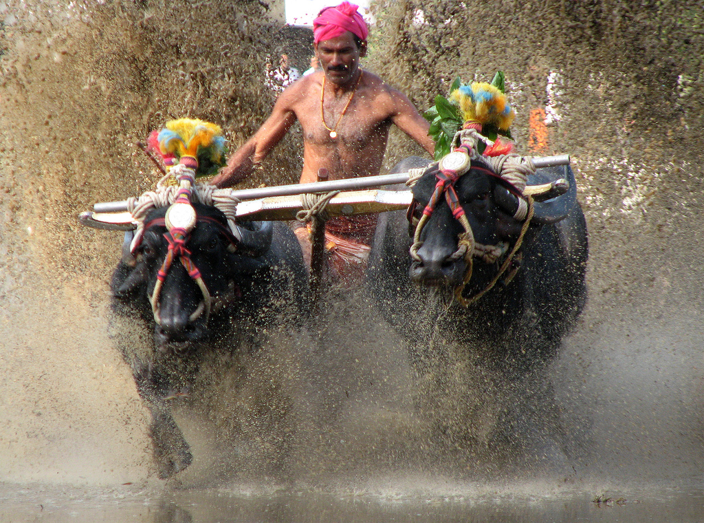 Splicing the water